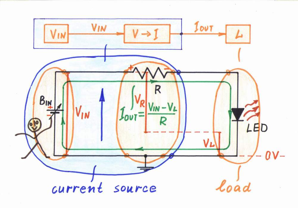 Voltage-controlled current source